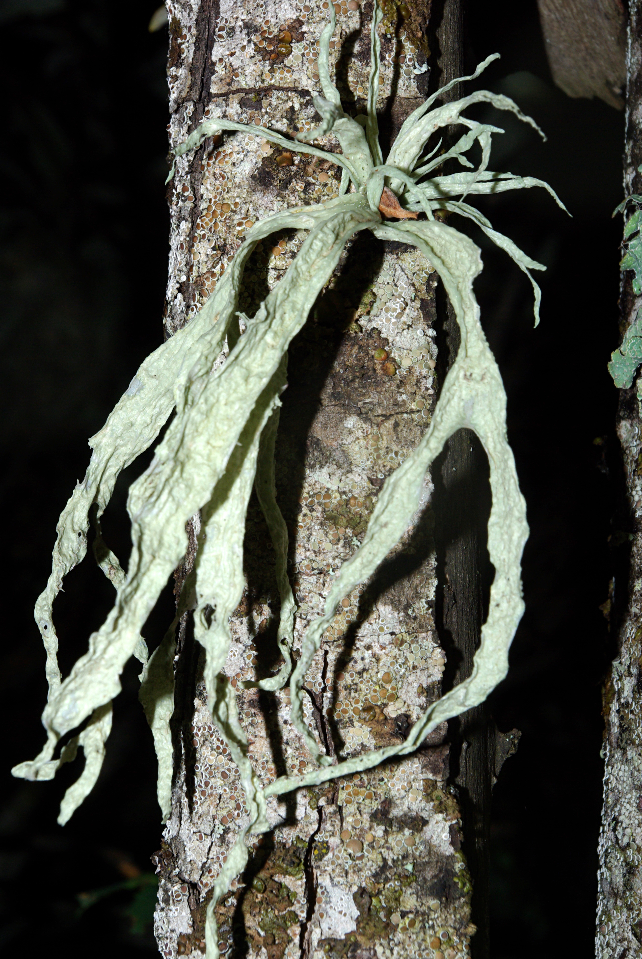 Oakmoss (Evernia prunastri). León (Spain).